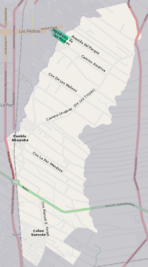 Street map of Colón Sudeste - Abayubá, Montevideo, exported from OpenStreetMap. I added shading to delimit the barrio. This map may be incomplete, and may contain errors. Don't rely solely on it for navigation.